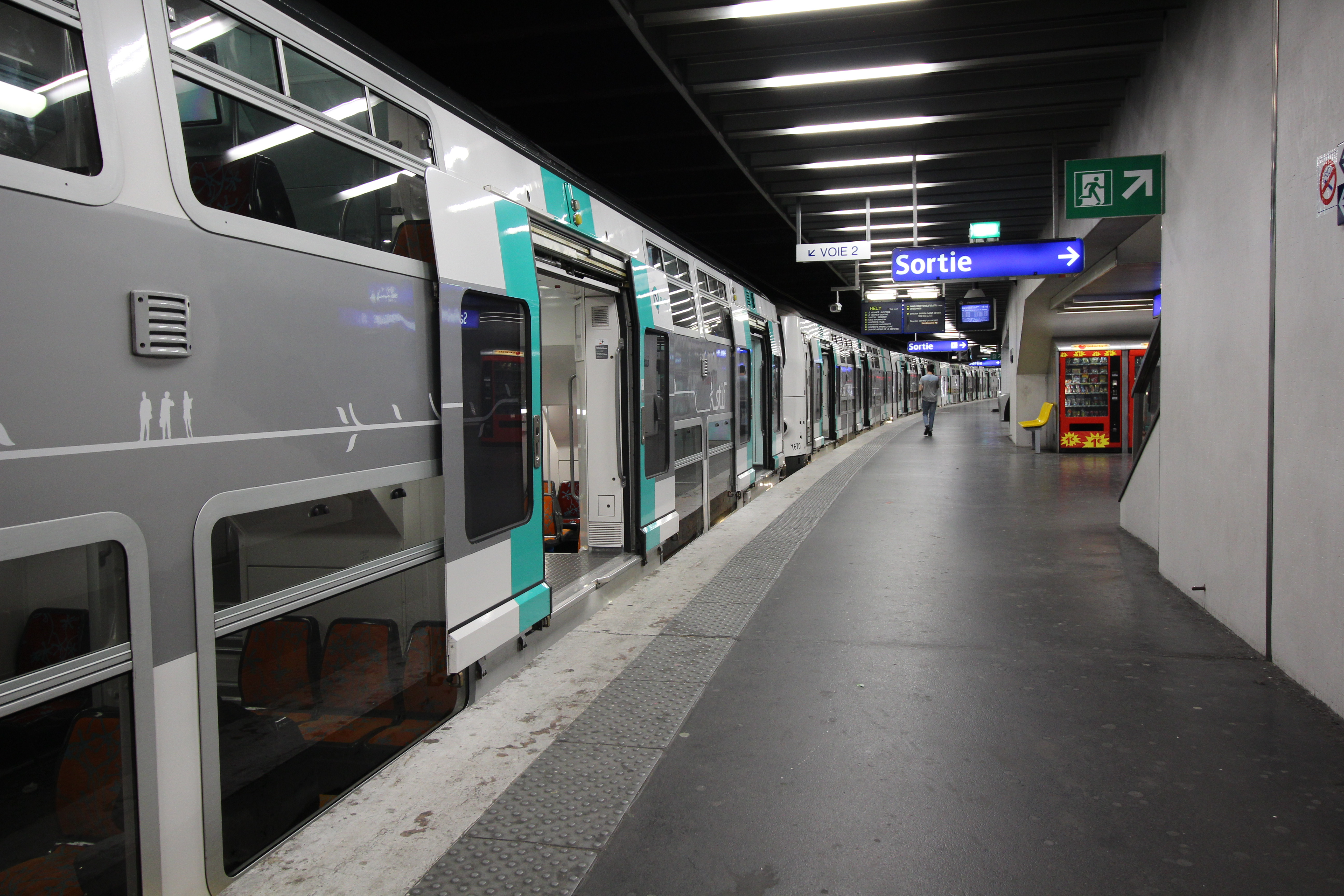 Saint-Germain-en-Laye station, Yvelines, France